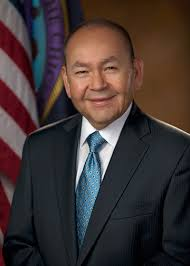 Gov Bill Anoatubby of the Chickasaw Tride